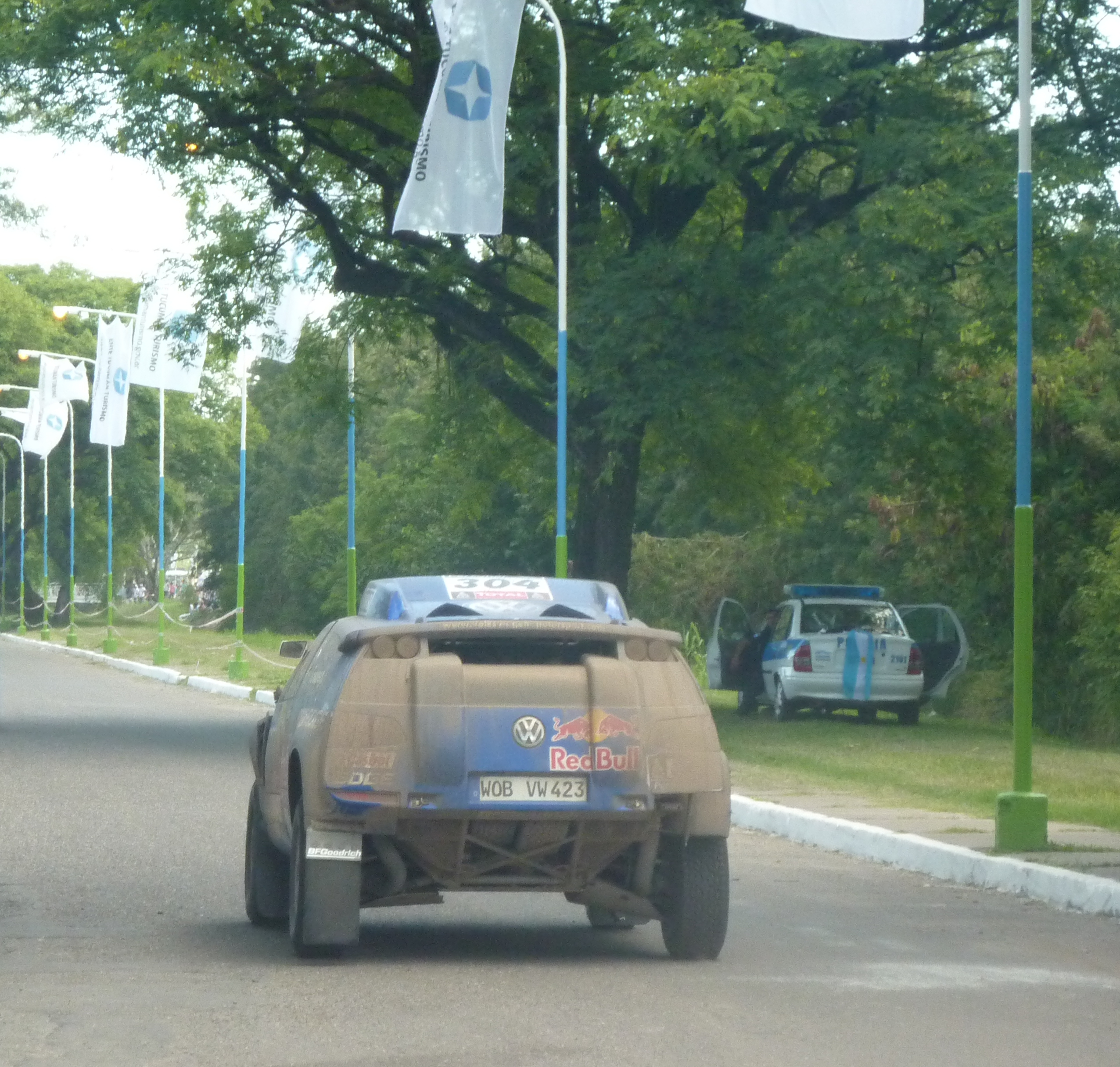 A VW Race Touareg 3 during the 2011 Dakar Rally. The photo was taken after the 2nd stage in San Miguel de Tucumán. The driver of the car is Mark Miller.